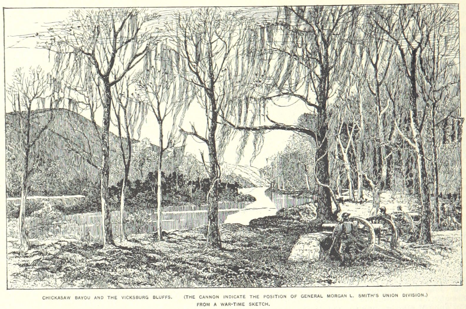 A view of the bluffs that were the site of the Battle of Chickasaw Bayou, as seen from General M. L. Smith's position.